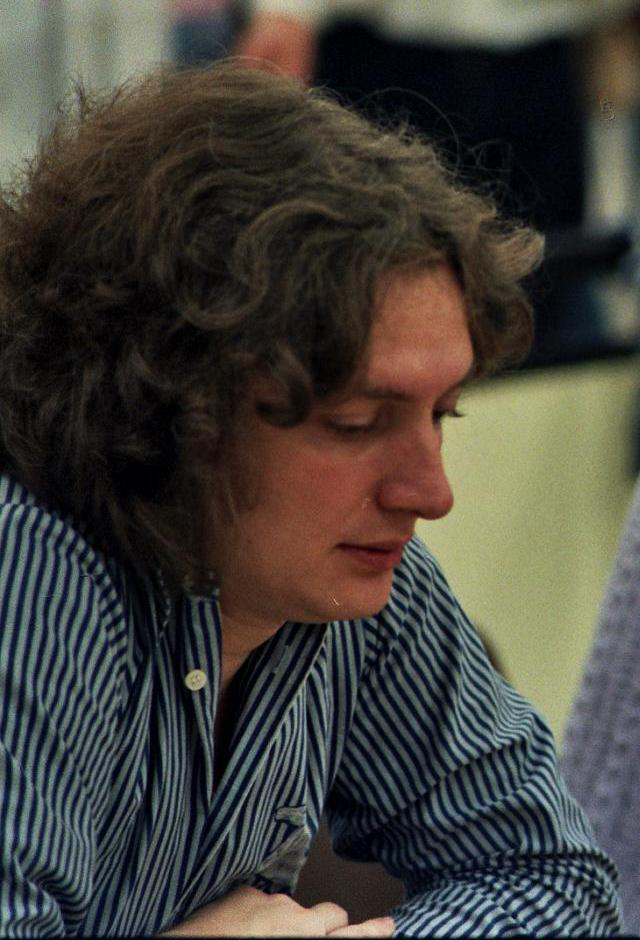 Jan Timman and Gennadi Sosonko, Chess Olympiad 1984 in Saloniki, Photographer Gerhard Hund.